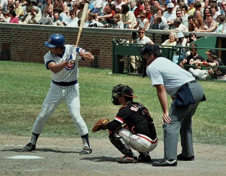 Mike Lum in 1981.